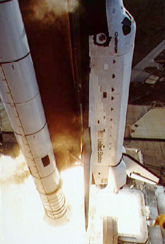 The space shuttle Challenger attached to two solid rocket boosters (SRB) and en external fuel tank (ET) blasts off from Pad 39A at Kennedy Space Center (KSC).